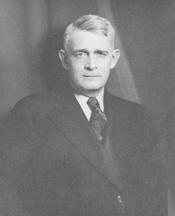 The source of this file is the United States Senate Historical Office. I got permission (to post this photo on Wikipedia) over the phone, in person, from Ms. Heather Moore, the United States Senate Photo Historian. Ms. Moore can be reached at 202-224-6900. The url contact page for Ms. Moore is Ms. Moore said that the photo is in the public domain, but that credit for the photo does need to be posted as "credited to the U.S. Senate Historical Office." The URL where this photo was retrieved from is